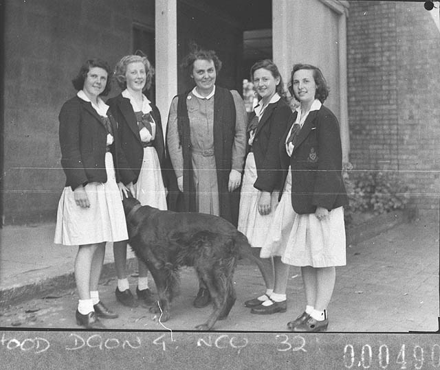 Image title:Group of four senior students with their headmistress, St Catherine's, Waverley Description: Principal and students of St Catherine's School, Toorak, 1945.